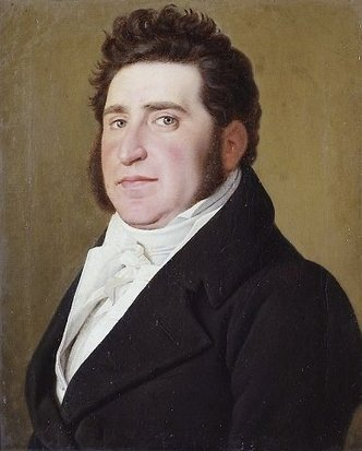 Mendel Levin Nathanson by Christoffer Eckersberg (1819)